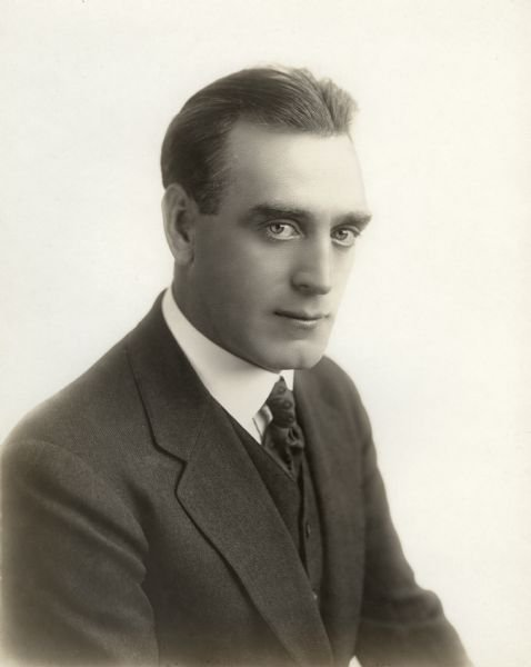 Head and shoulders publicity portrait of Fine Arts Film Company actor Alfred Paget made in 1916 by the Carpenter Studio of Los Angeles.